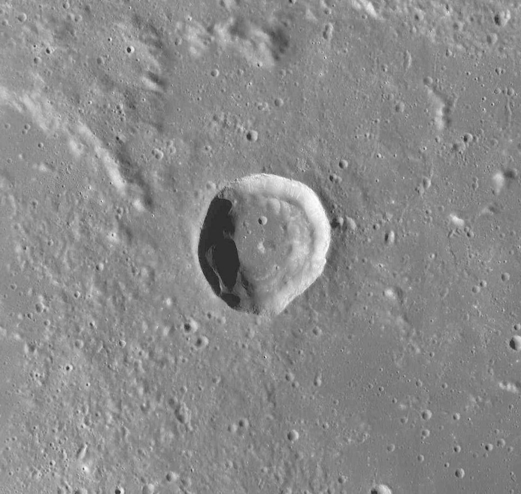 Crater Grove (detail of LRO - WAC global moon mosaic; Mercator projection)